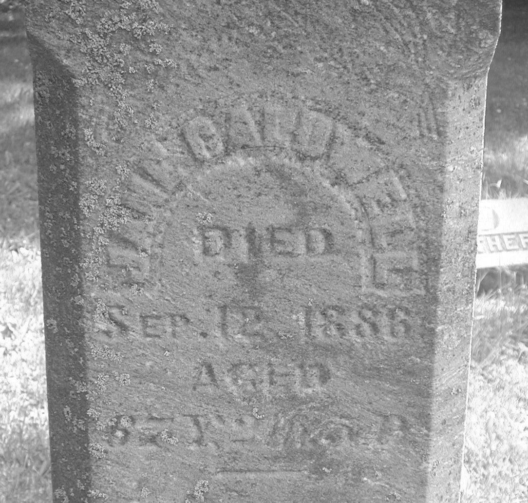 Jane Caldwell, wife of John Caldwell